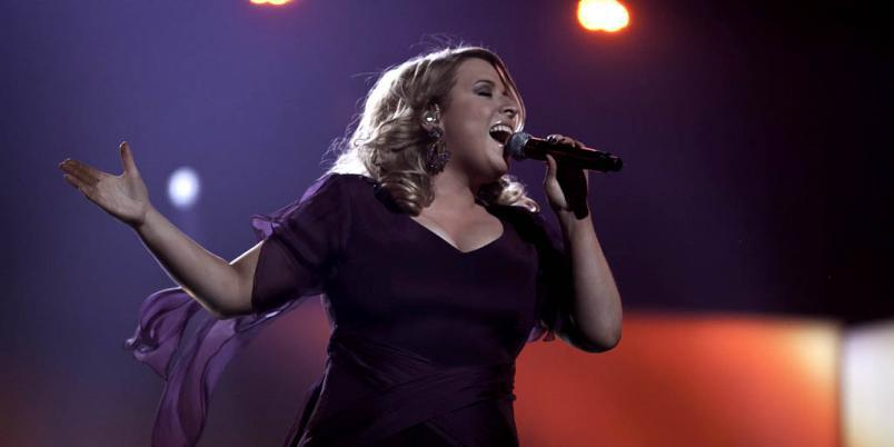 Reidun in Eurovision 2012